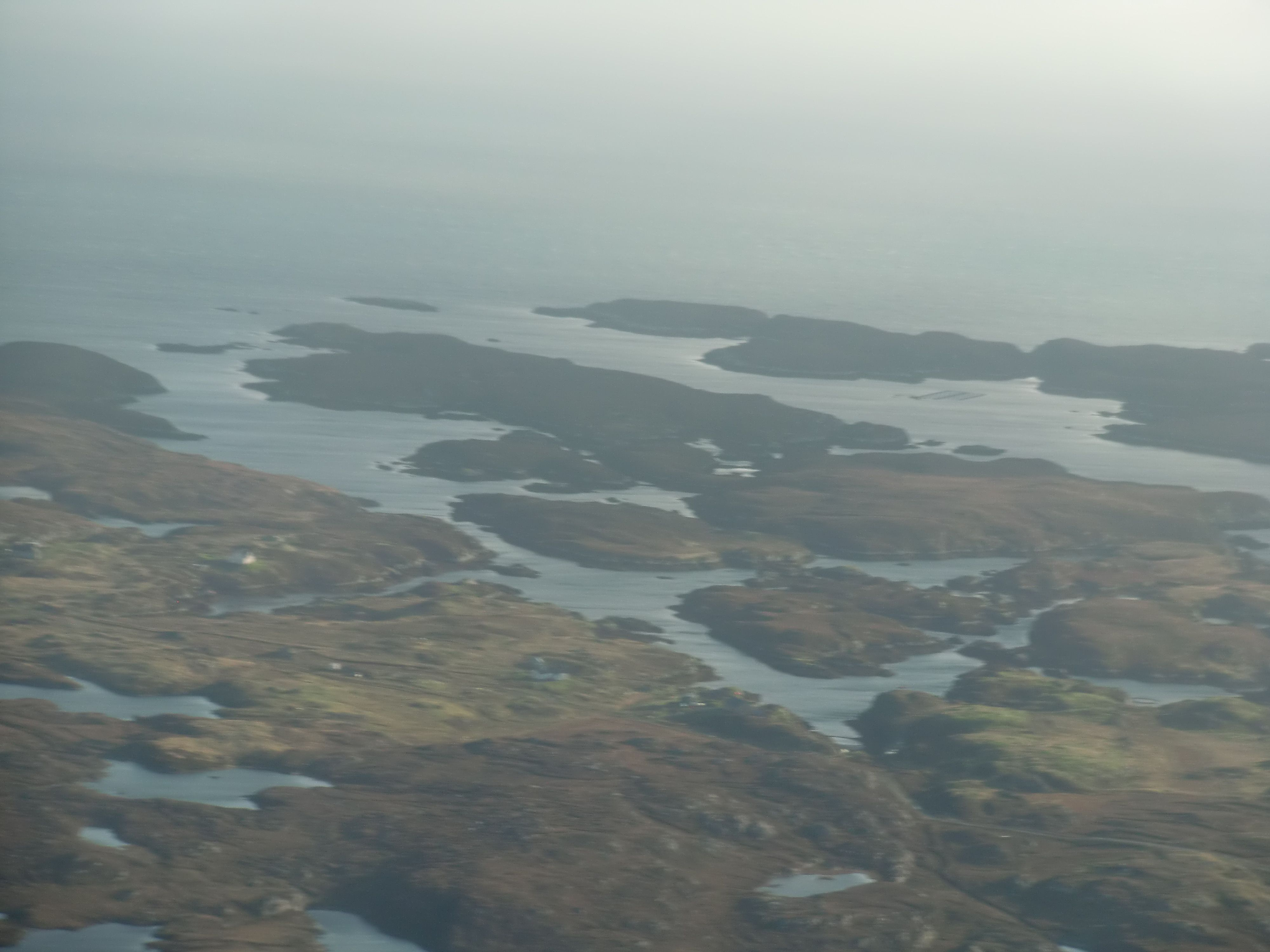 Eileanan Chearabhaigh off the east cost of Benbecula, Outer Hebrides